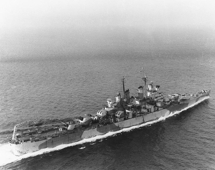 The U.S. Navy light cruiser USS Topeka (CL-67) underway at sea, March 1945. She is painted in Camouflage Measure 32 or 33, Design 24d.